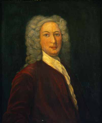 Portrait by Frederick Wright of Philip Livingston which is a copy of a 1737 portrait attributed to John Smibert.